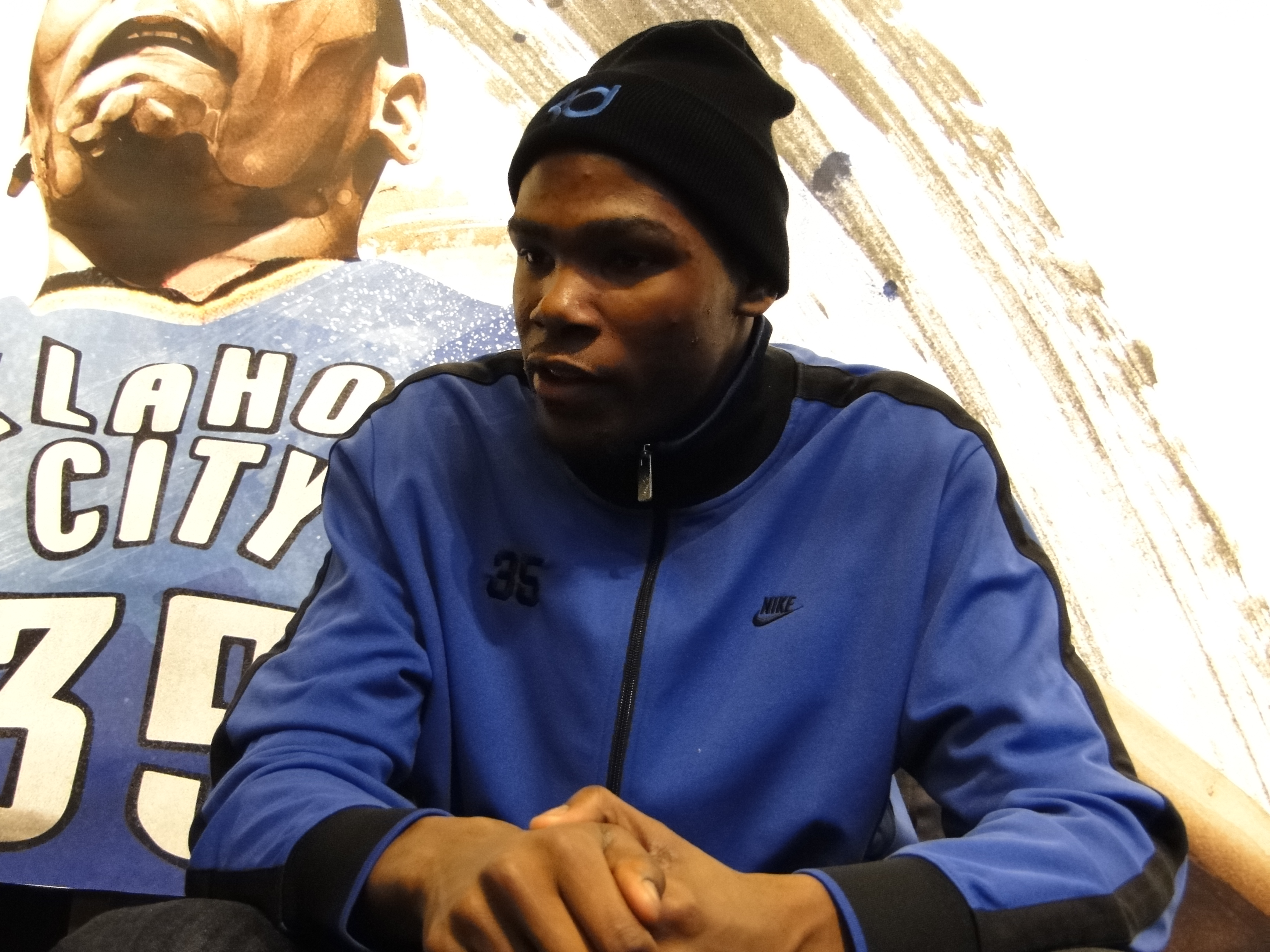 Oklahoma City Thunder Forward Kevin Durant at the House of Hoops in Bronx, NY